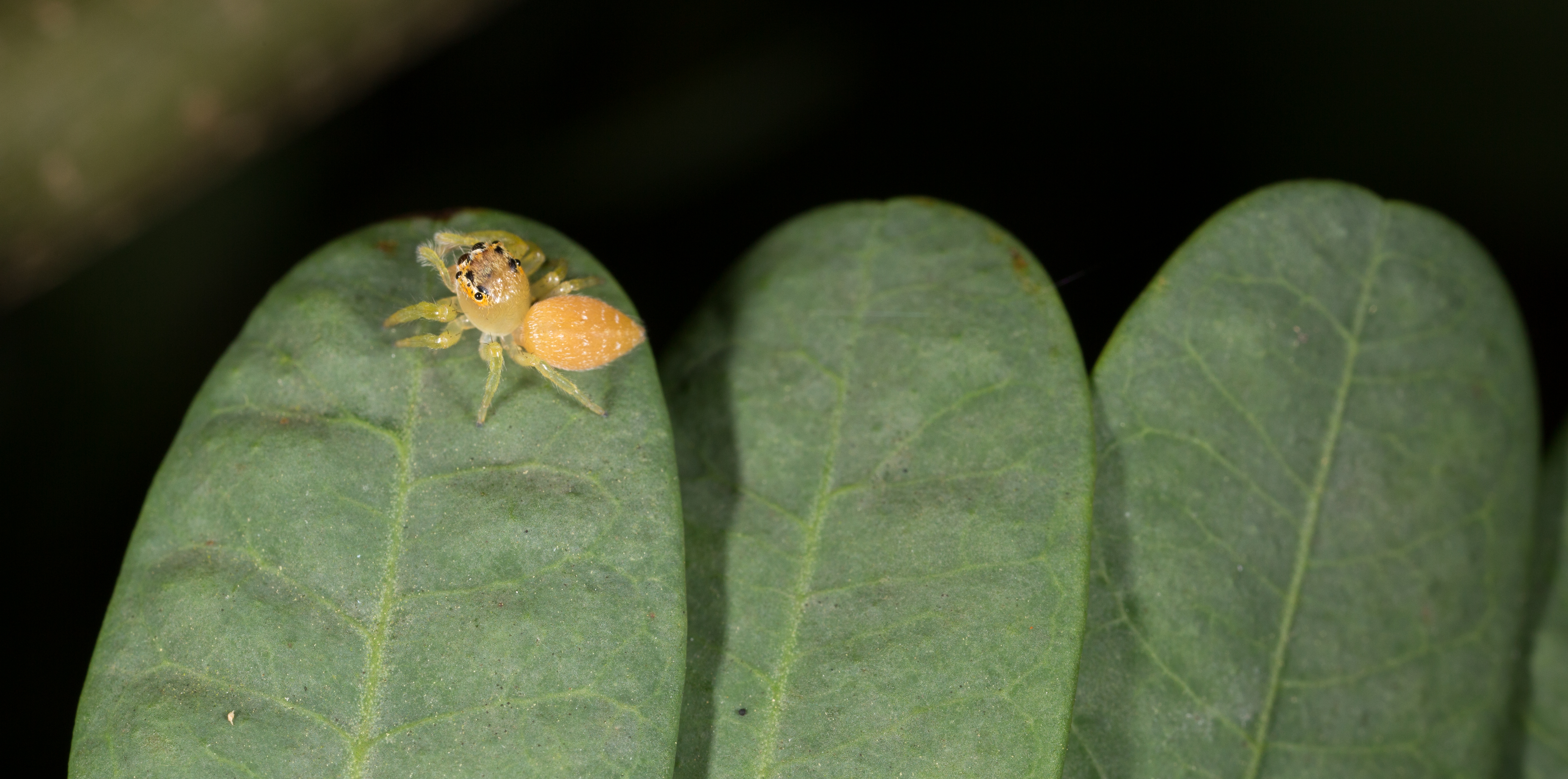 Opisthoncus polyphemus